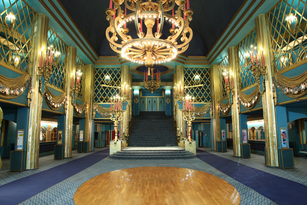 The blue and gold Grand Foyer of the Folies Bergère renovated in 1974 by Helène Martini